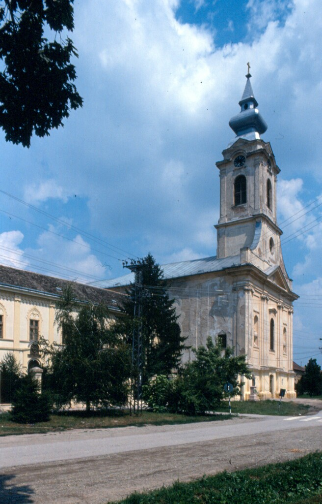 Catholic church in Bač, Vojvodina, Serbia .